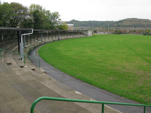 Stands for Folkestone cricket ground